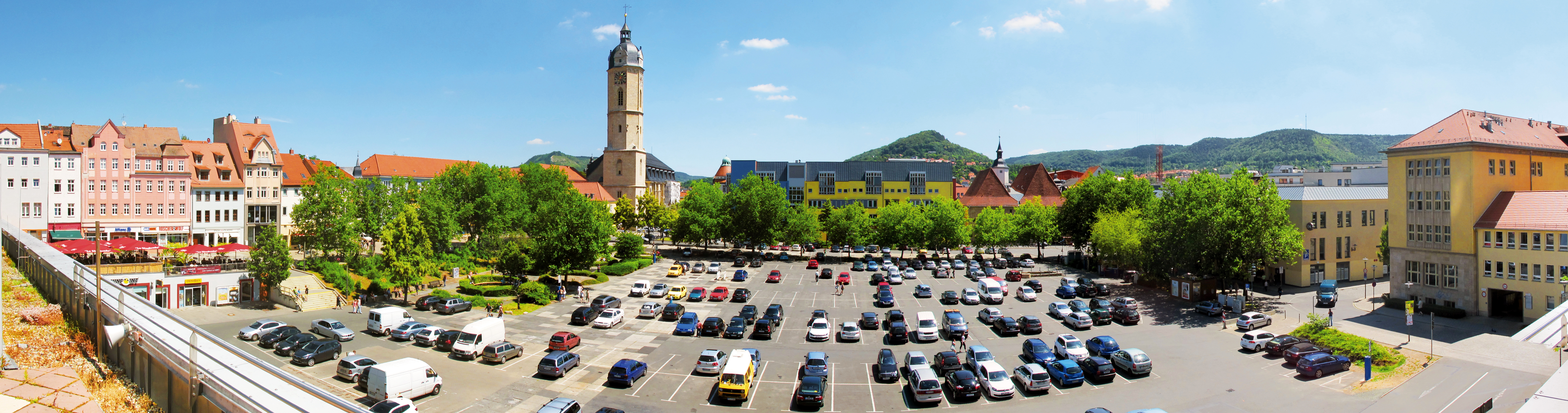 Panoramic view on the Eichplatz in Jena, Germany from the viewing platform of the JenTower, viewing direction to the market square